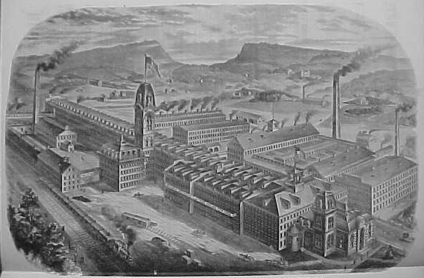 Store Web page states: "THE INDUSTRIAL WORLD COMMERCIAL ADVERTISER trade journal (Chicago) , dated September 29, 1881. COMPLETE in 36 pgs, folio (15 3/4" x 10 3/4"). [...] Featured in this issue is the DOUBLE PAGE (15 3/4" x 21 1/4" advertisement for 'MERIDEN BRITANNIA CO., MANUFACTURERS OF ELECTRO GOLD AND SILVER PLATE' containing a FULL PAGE steel engraved view of 'MANUFACTORY OF MERIDEN BRITANNIA COMPANY, MERIDEN, CONN.'